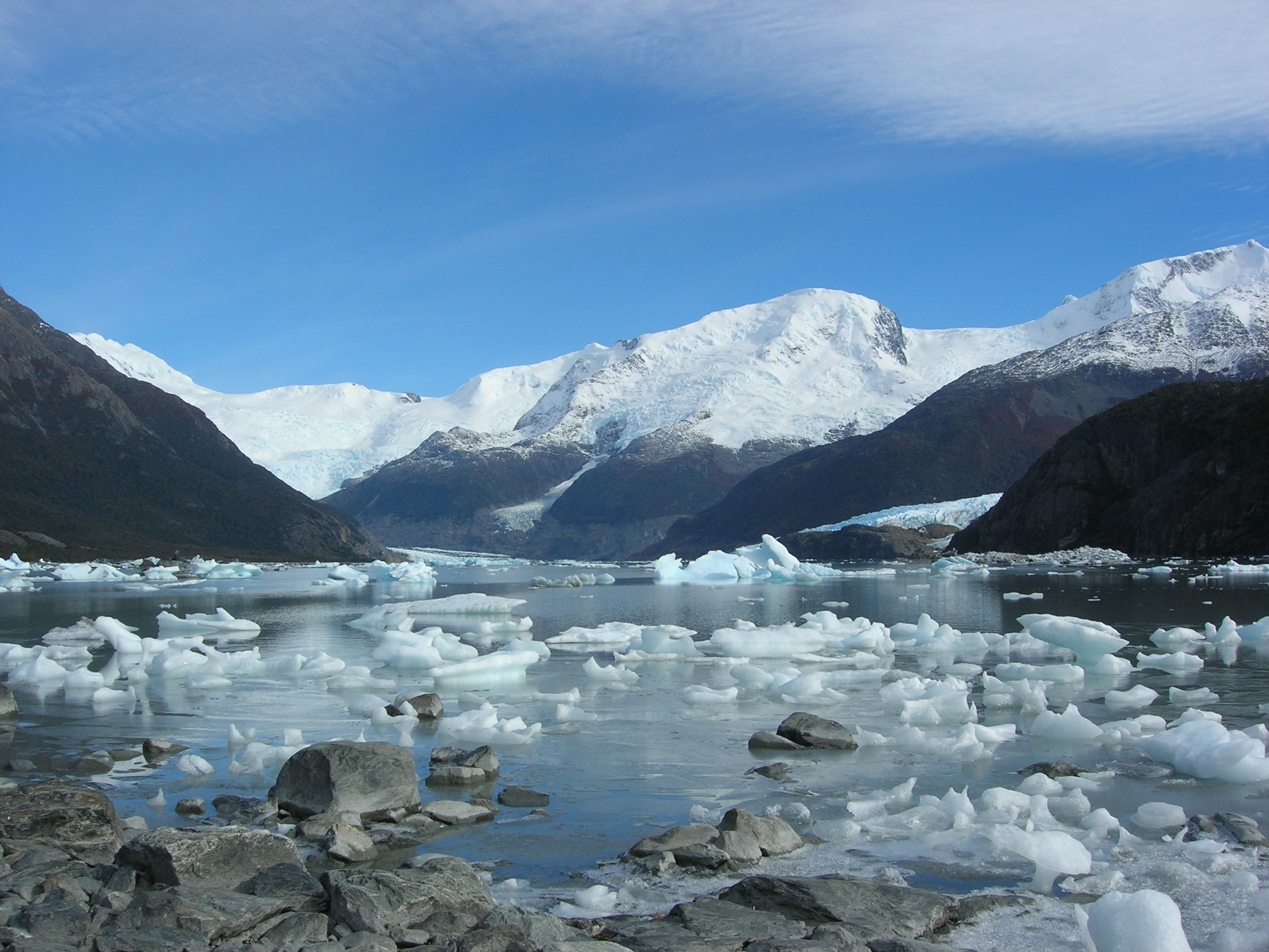 Description =Glacier Onelli Argentine Source =Photo taken by Remi Jouan Date =Avril 2006 Author =Remi Jouan